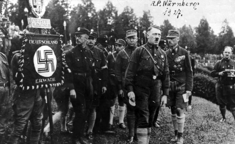 Information added by Wikimedia users.Depicted (left to right from the banner): Heinrich Himmler, Rudolf Hess, Gregor Strasser, Adolf Hitler, Franz von Pfeffer